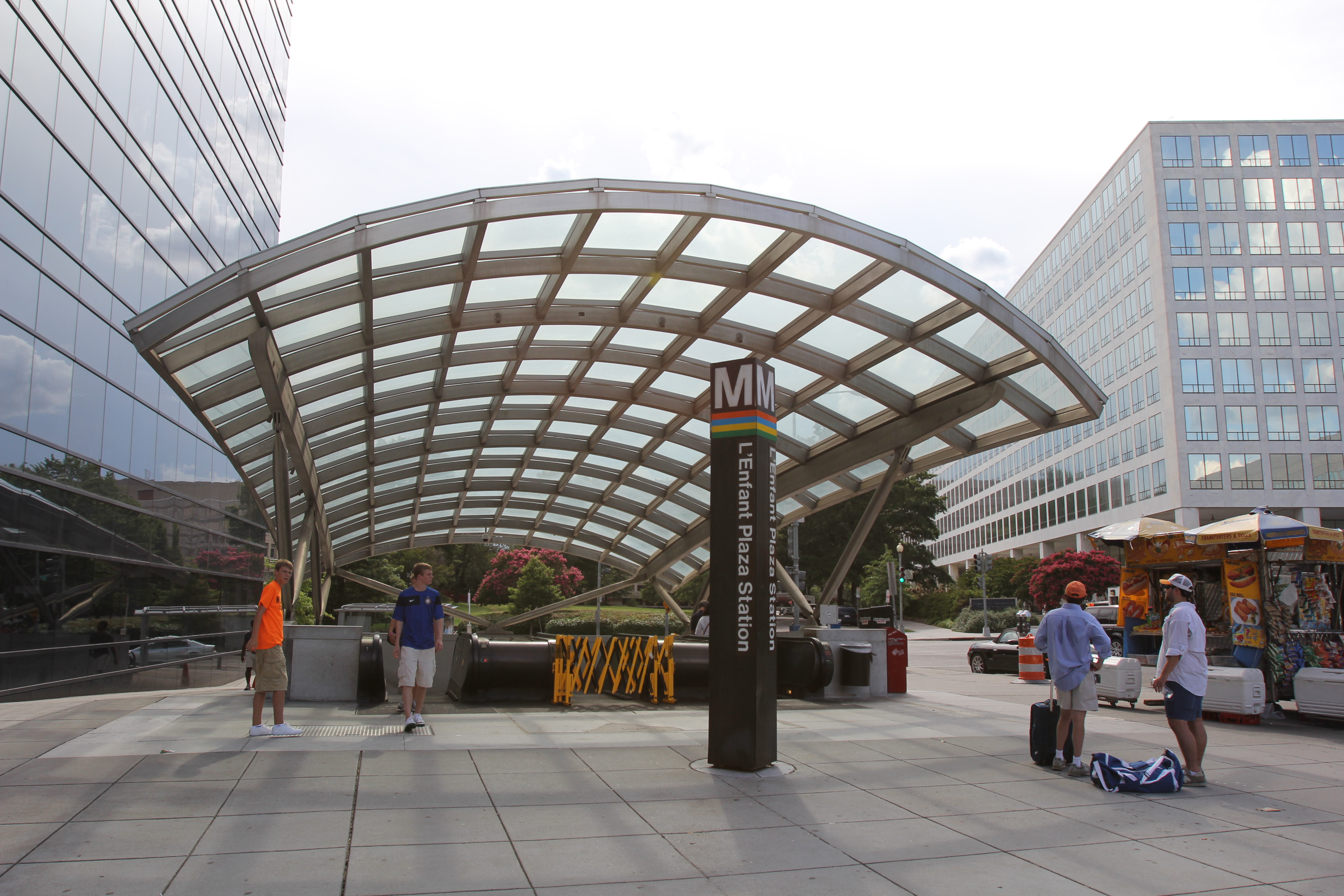 L'Enfant Plaza (WMATA station) Took at WikiExpedition of WM2012 (Target:A-18)